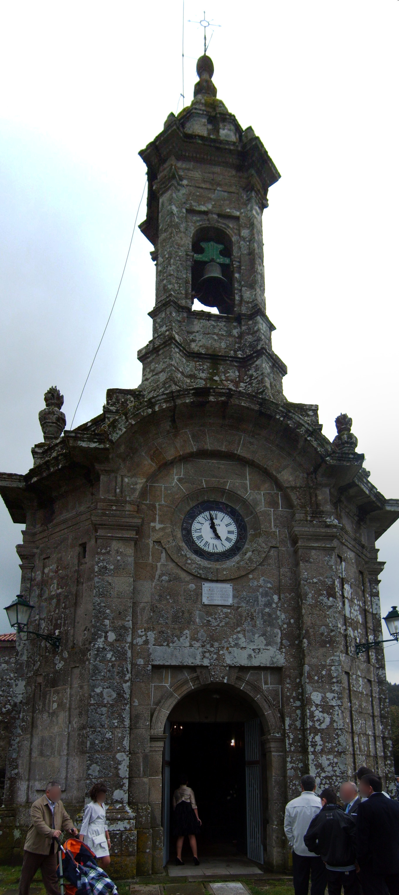 Church of Santa María de Villestro, in Santiago de Compostela.